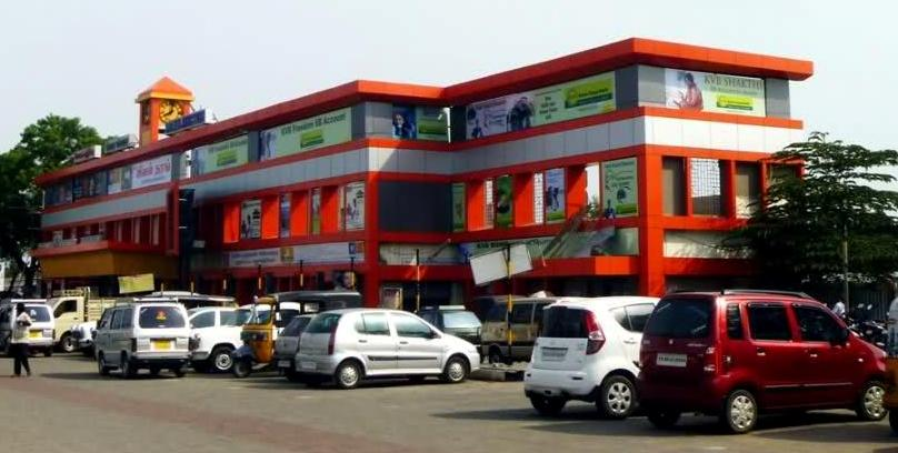 Salem junction after facelift